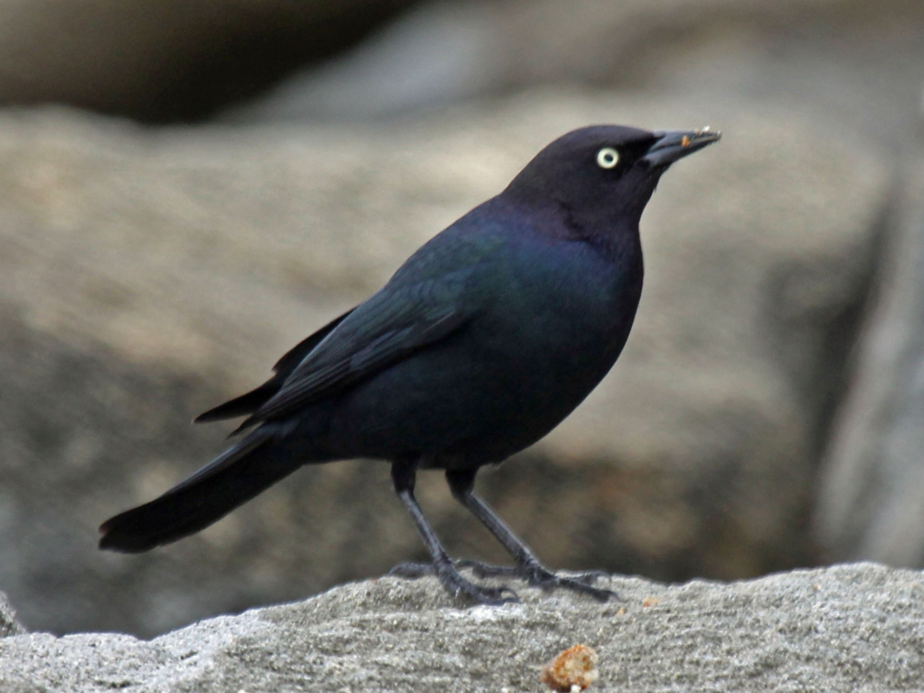 Male Brewer's Blackbird (Euphagus cyanocephalus) - Half Moon Bay, California